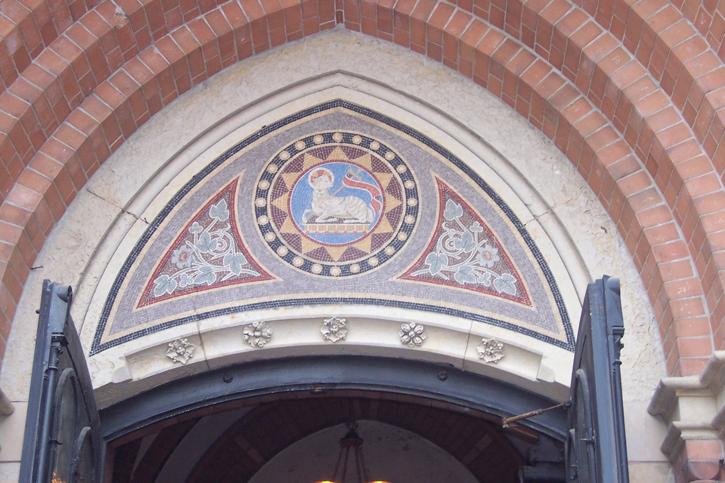 Tympanon of Lutherkiche Leipzig